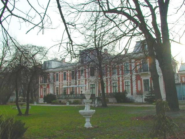 Konstanty Zamoyski Palace in Warsaw, Foksal Street. Author: Zbigniew Strucki